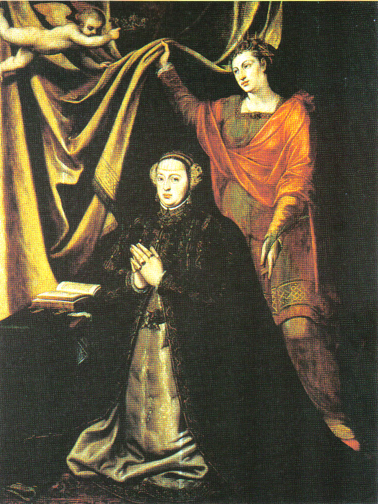 Altar piece